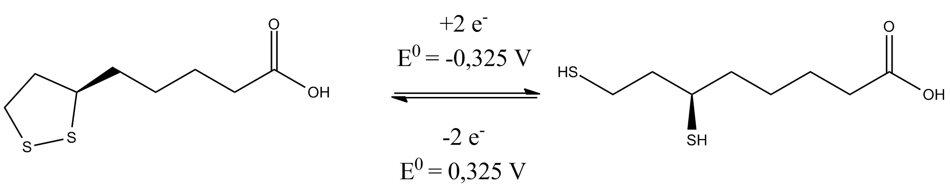 The redox reaction between lipoic acid and dihydrolipoic acid. Drawn with ChemBioDraw Ultra 12.0.2